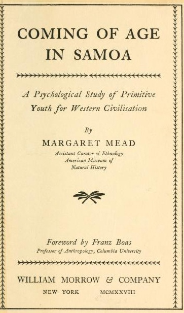 Title page of book Coming of Age in Samoa by Margaret Mead, with foreward by Franz Boaz, first published 1928.